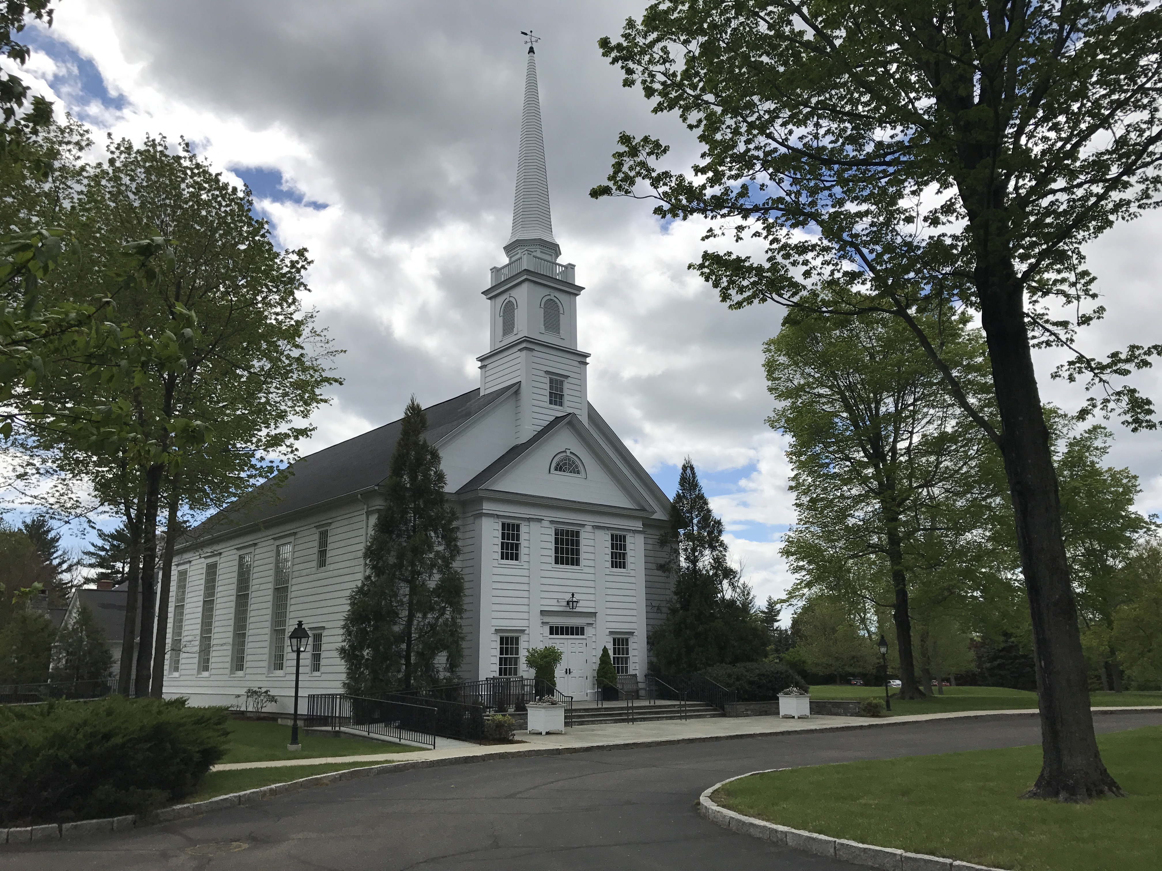 The new building at Stanwich Church's Greenwich campus was completed in 2007.